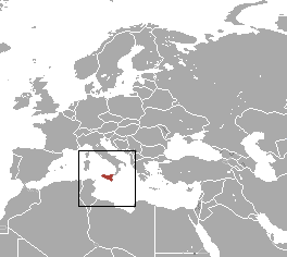 Sicilian Shrew (Crocidura sicula) range